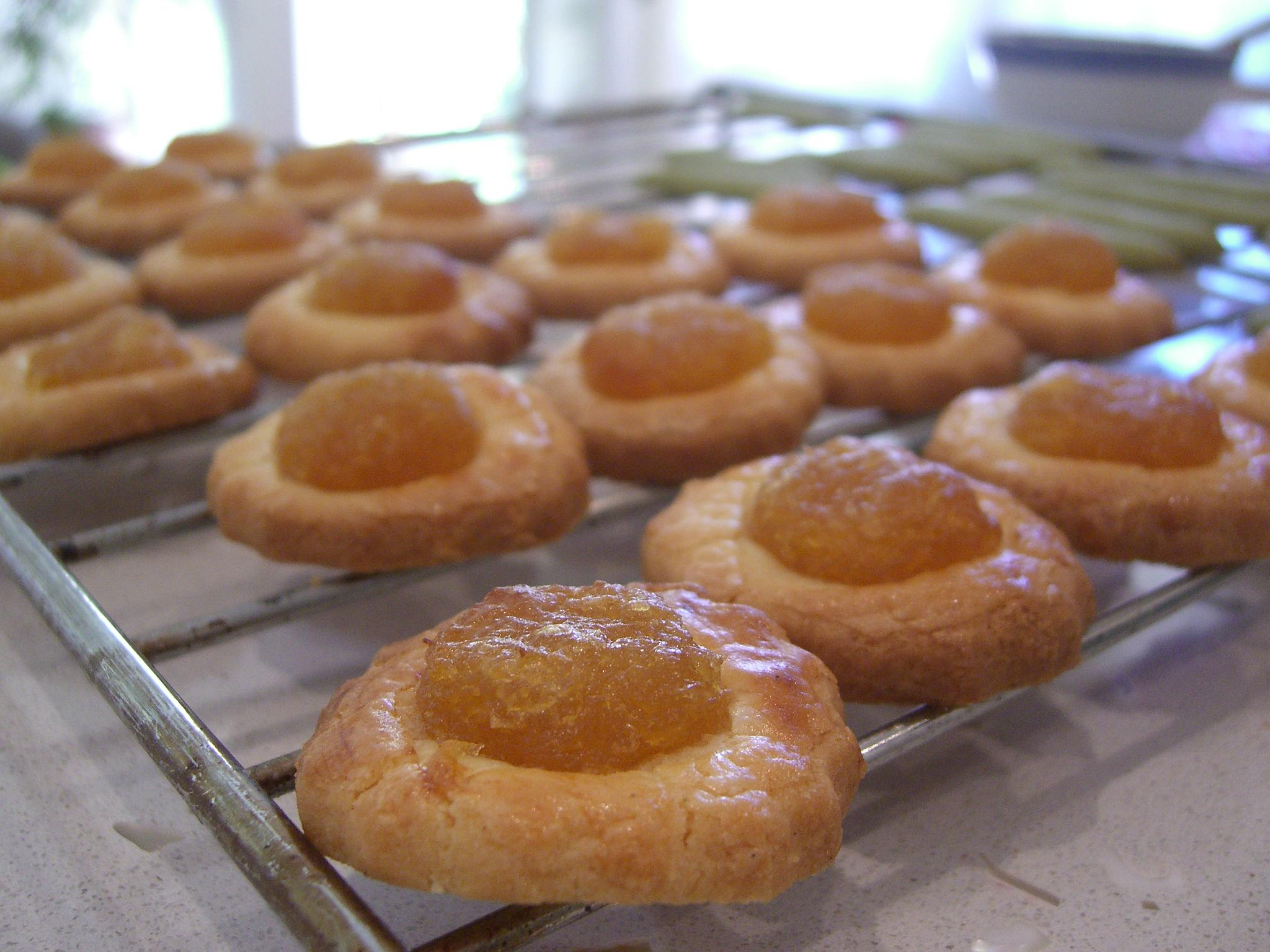 Julia's Pineapple Tarts and Green Tea Longue de Chat. Very buttery crust that melts in your mouth. The pineapple jam was good too, but a bit stringy. Perhaps next time, we'd finely chop the pineapple instead of grating it.